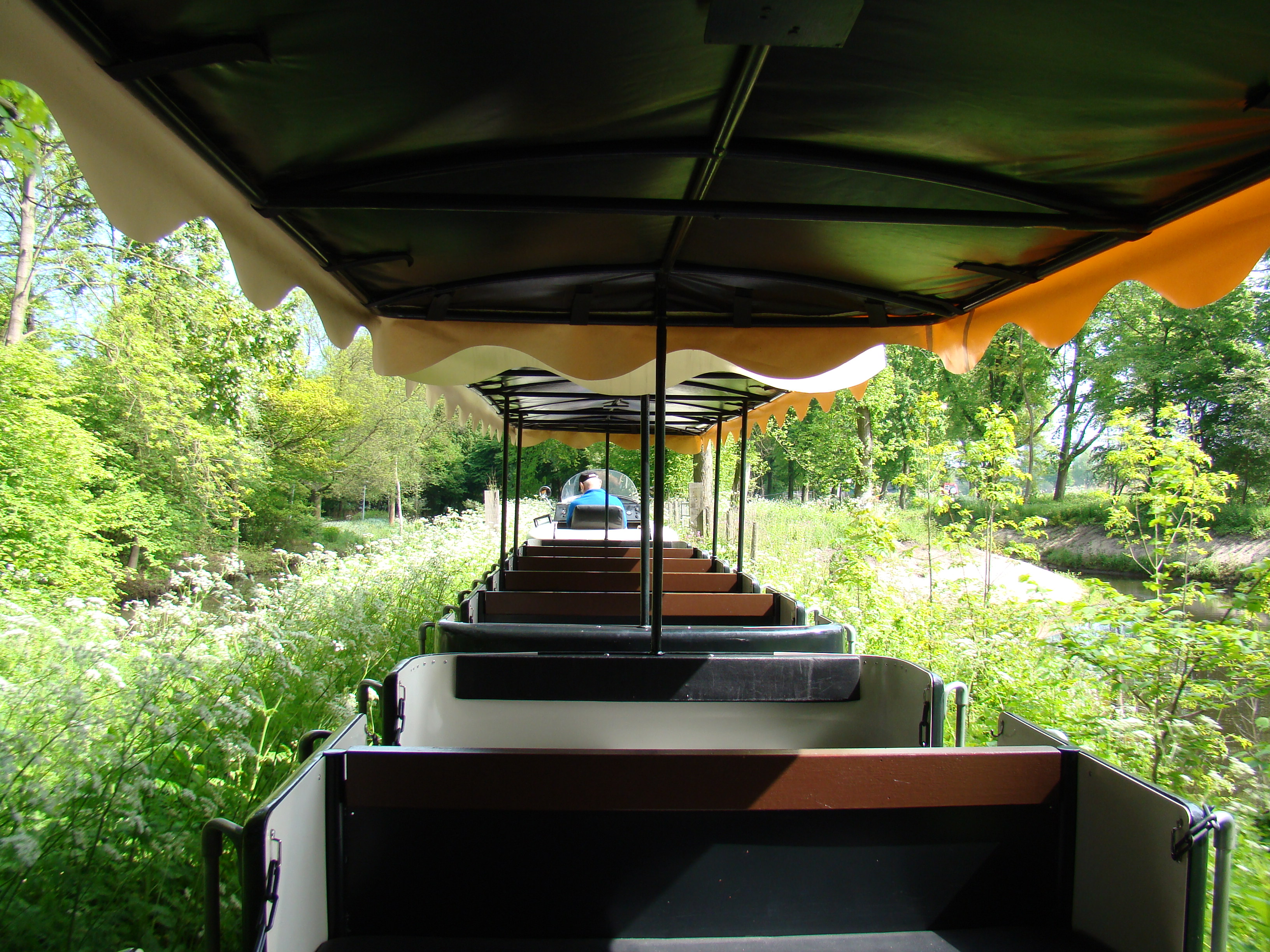 The Amsteltrein in the Amstelpark, Amsterdam, The Netherlands. The Amstelpark is a park originally created for the 1972 Floriade.